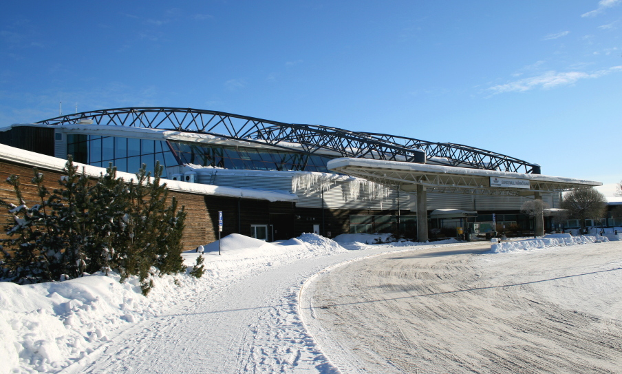 The passenger terminal at Sundsvall-Härnösand Airport